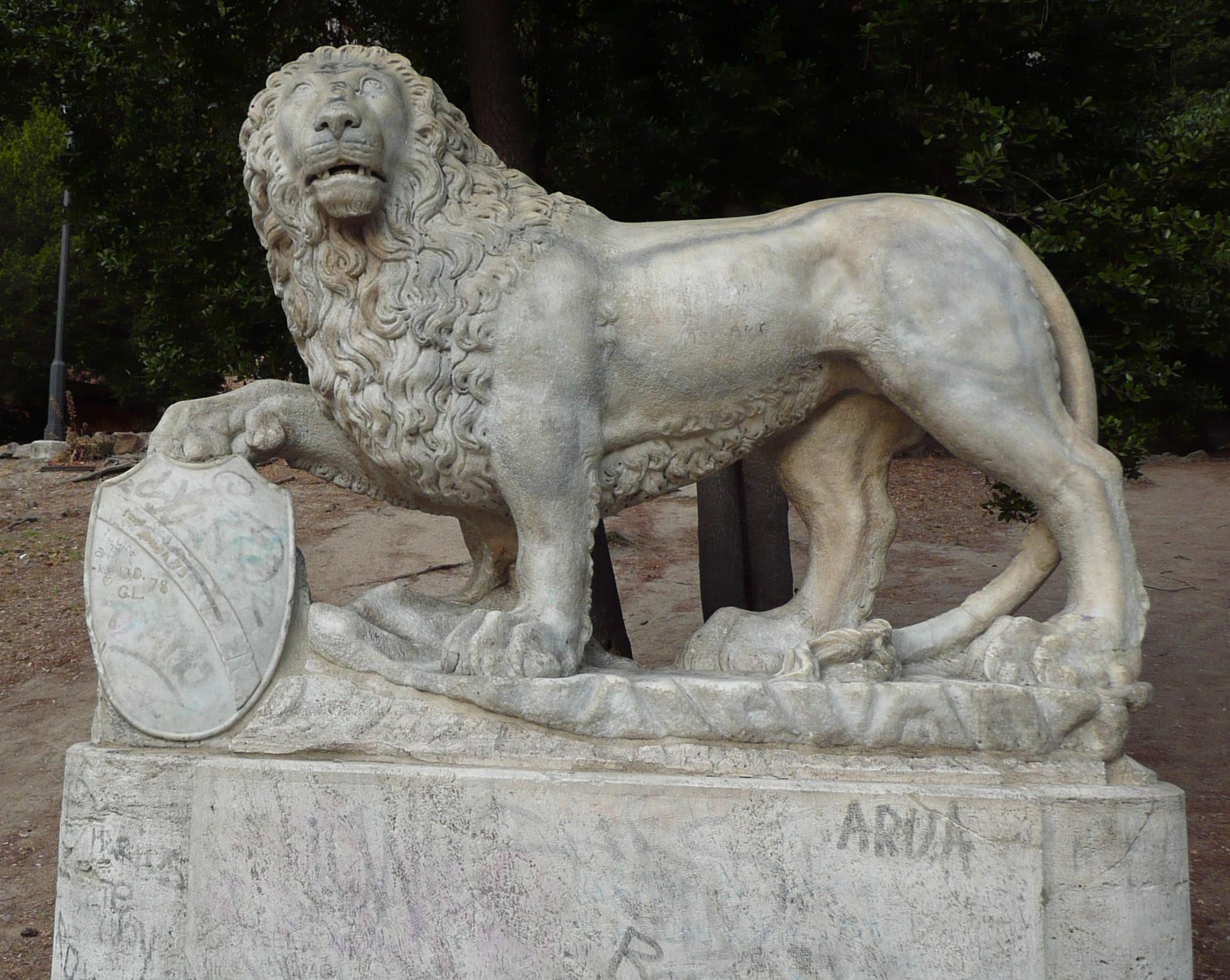 Lion statue.Villa Borghese Gardens, Rome.SVN